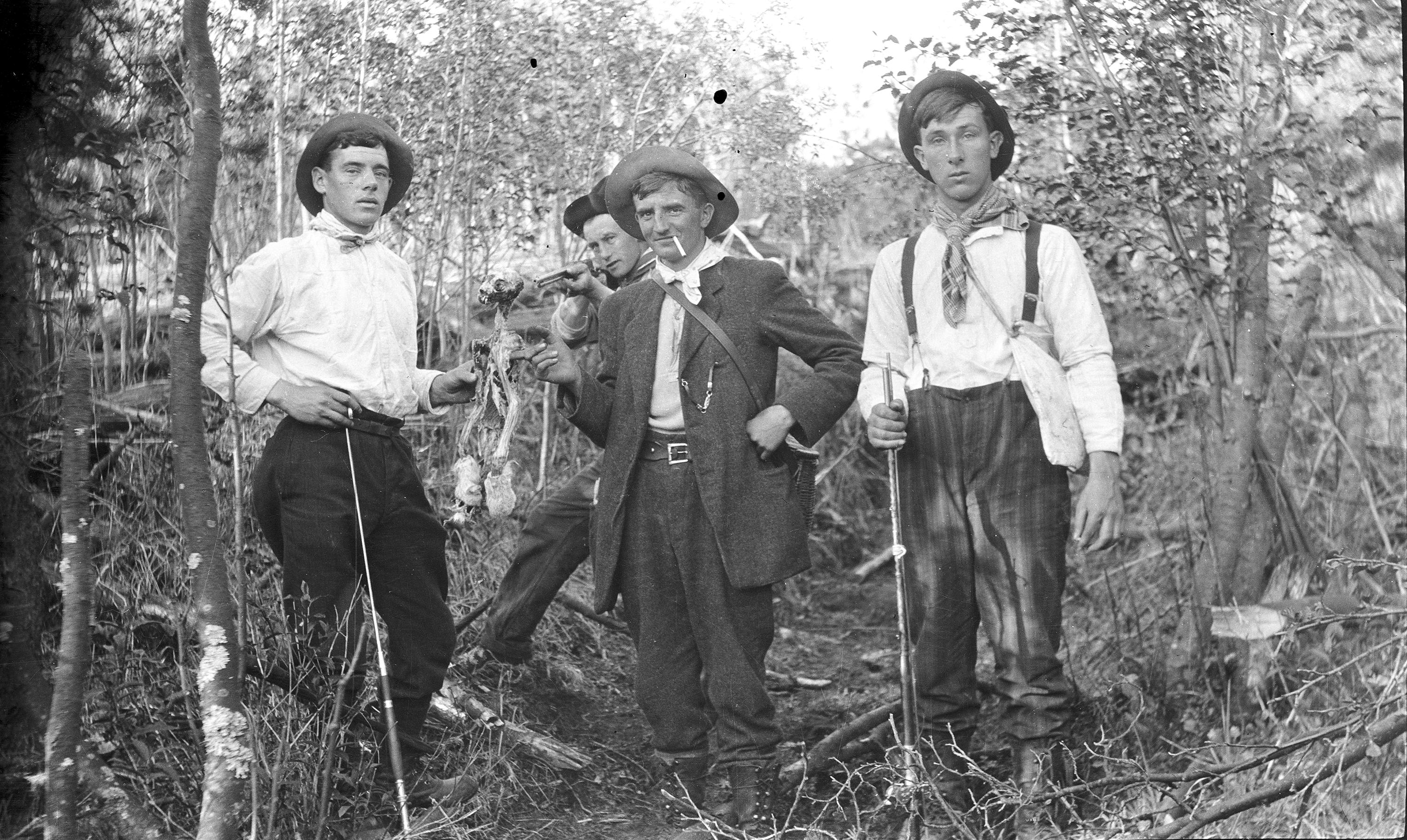 Lovett, Alberta. From the Godby Family fonds, PR2009.0441/16.